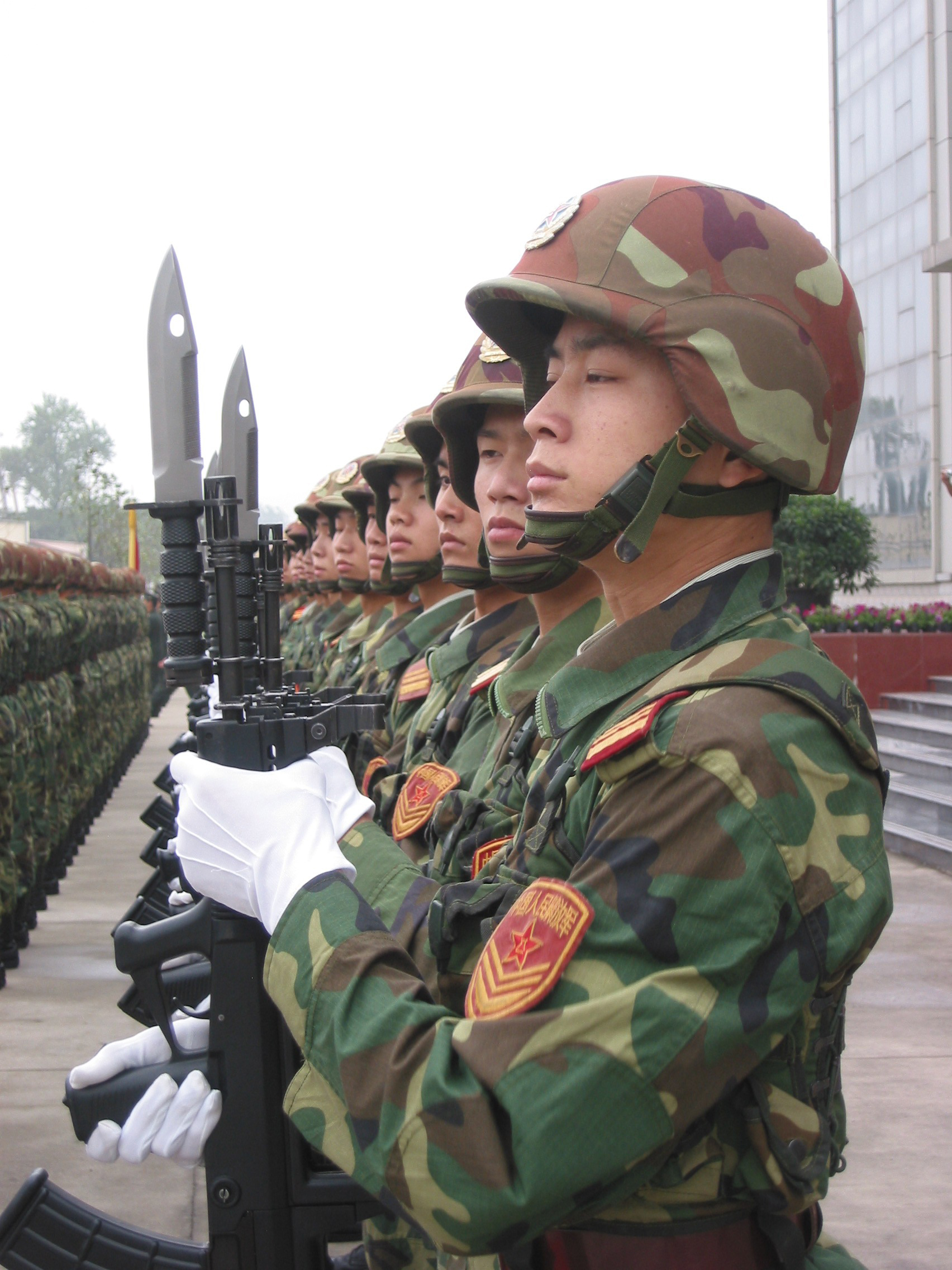 Soldiers of an honor guard of the People's Liberation Army at their base in Nanjing, China, on June 18.